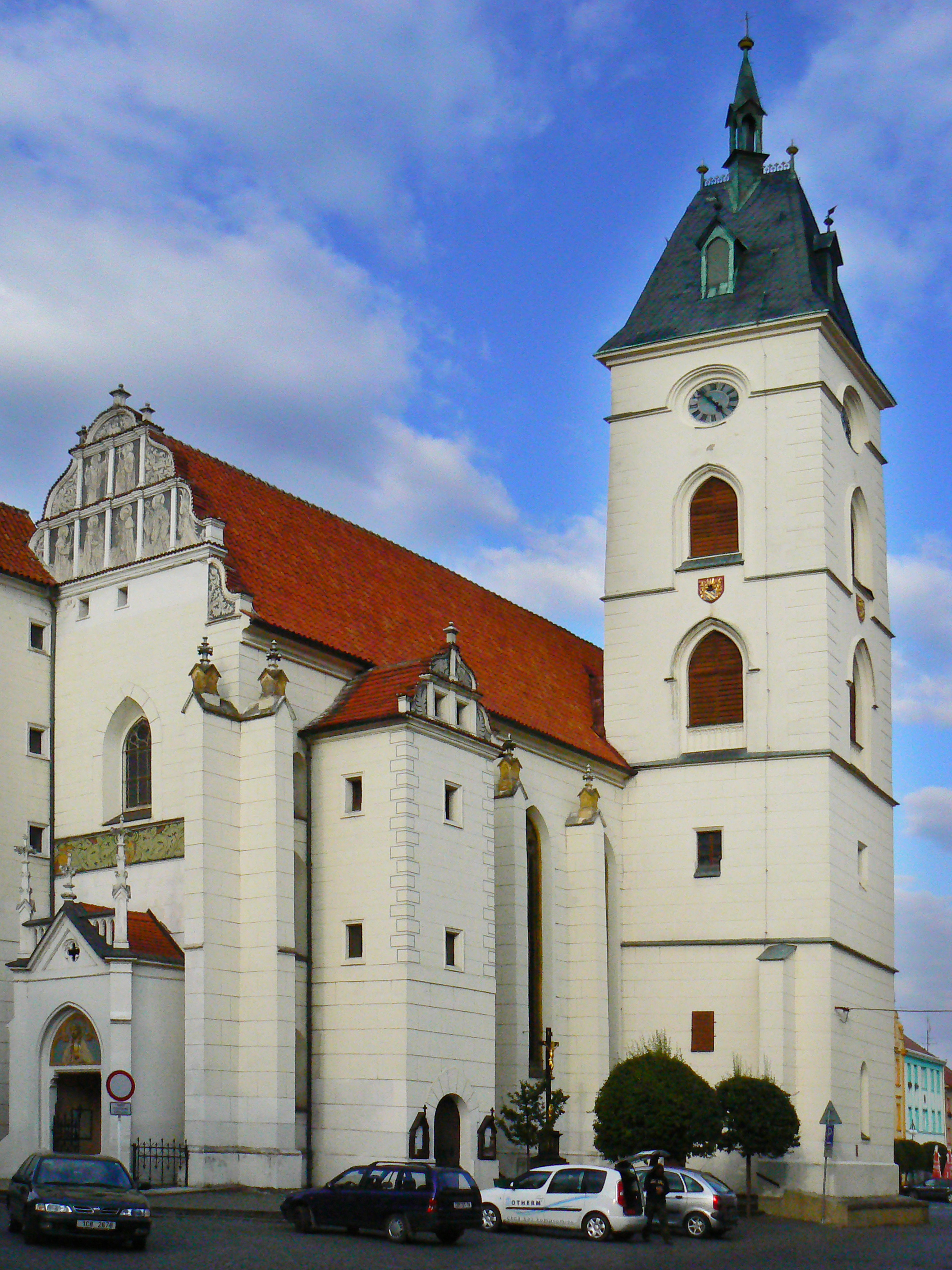 Church of the Nativity of the Virgin Mary, Vodňany, Czech Republic